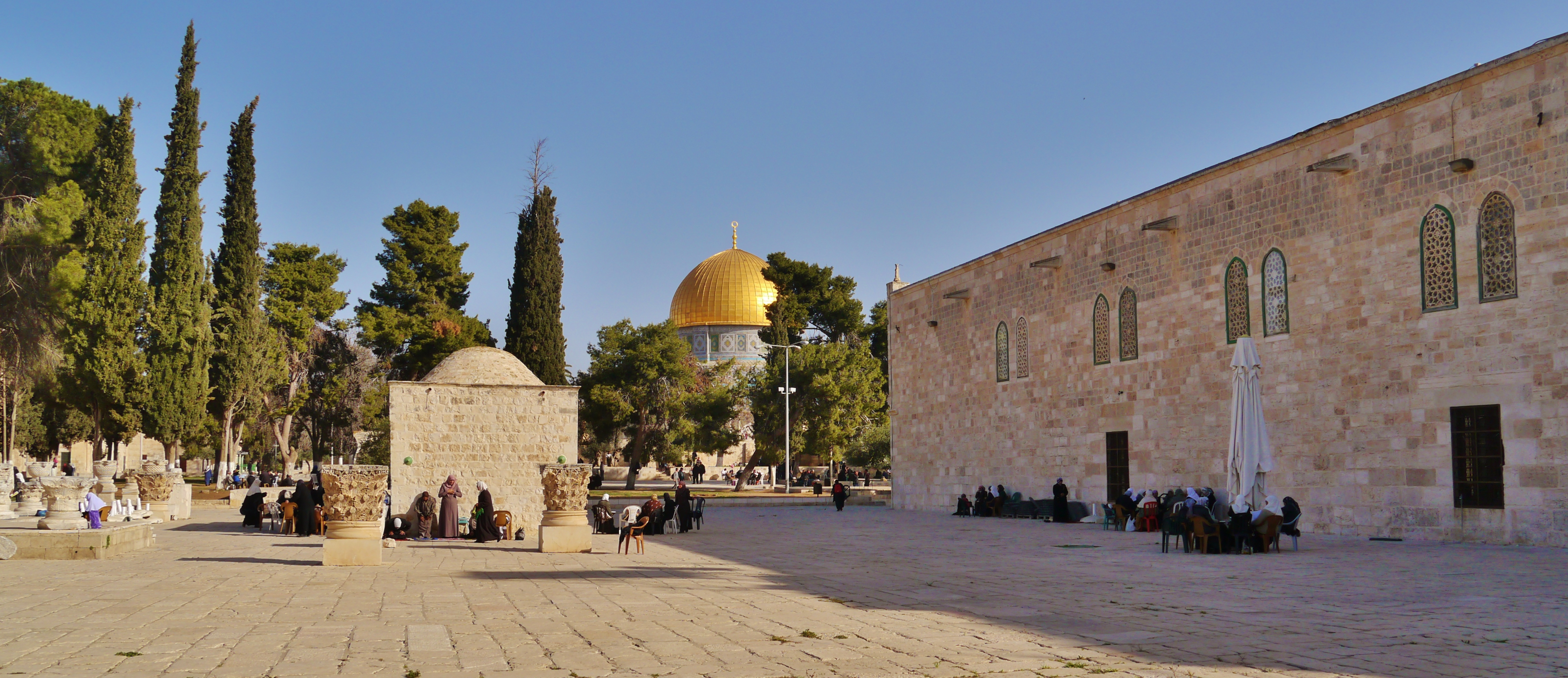 Dome of the Rock and Al-Aqsa Mosque on the Temple Mount, Jerusalem, Israel